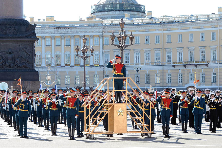 The Central Orchestra of the St. Petersburg Garrison during a victory day parade in 2017.